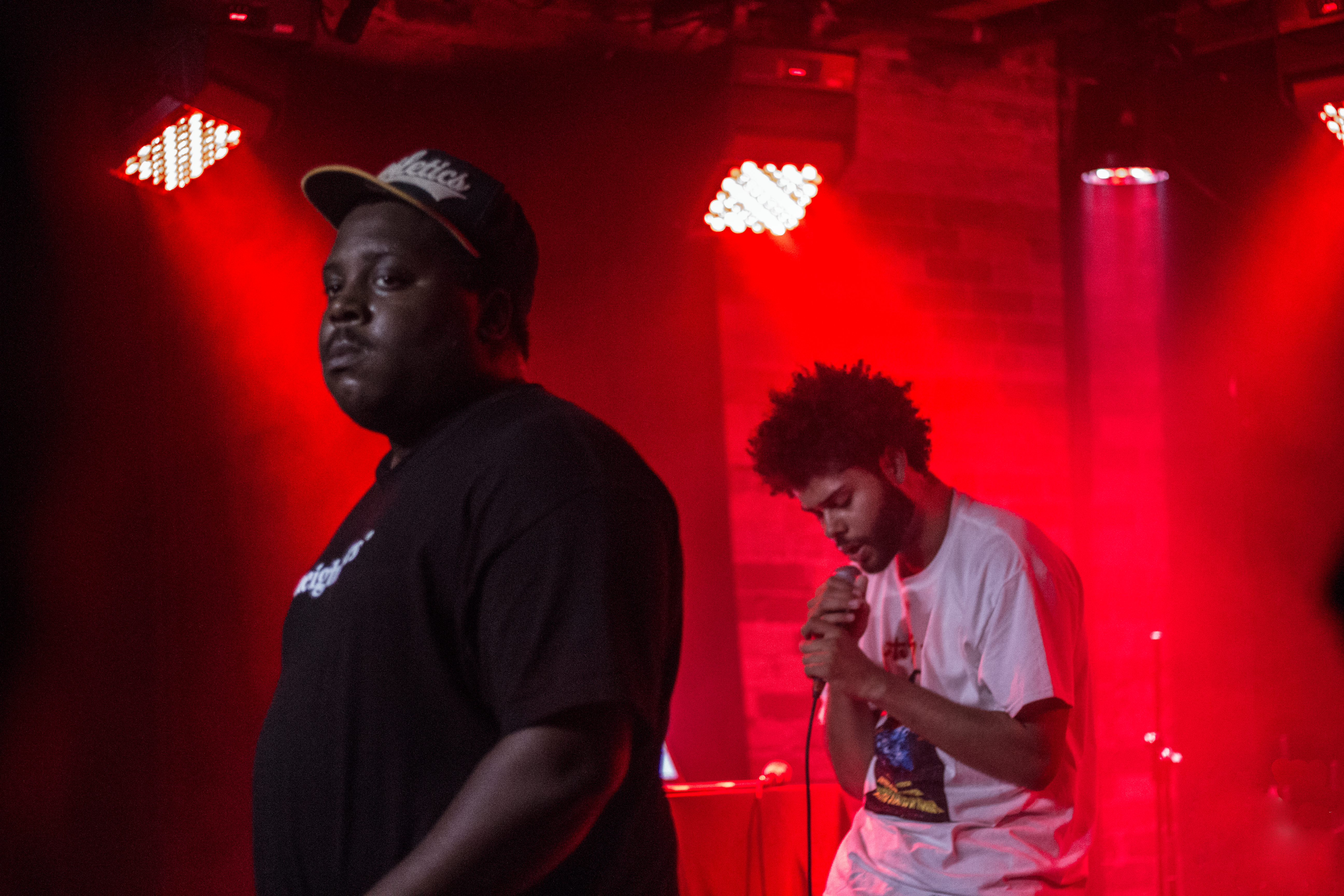 Ho99o9 with support from Injury Reserve. Shot in The Velvet Underground, May 30th 2017 in Toronto. Photography by Mac Downey (@mac.all.mighty) for The Come Up Show